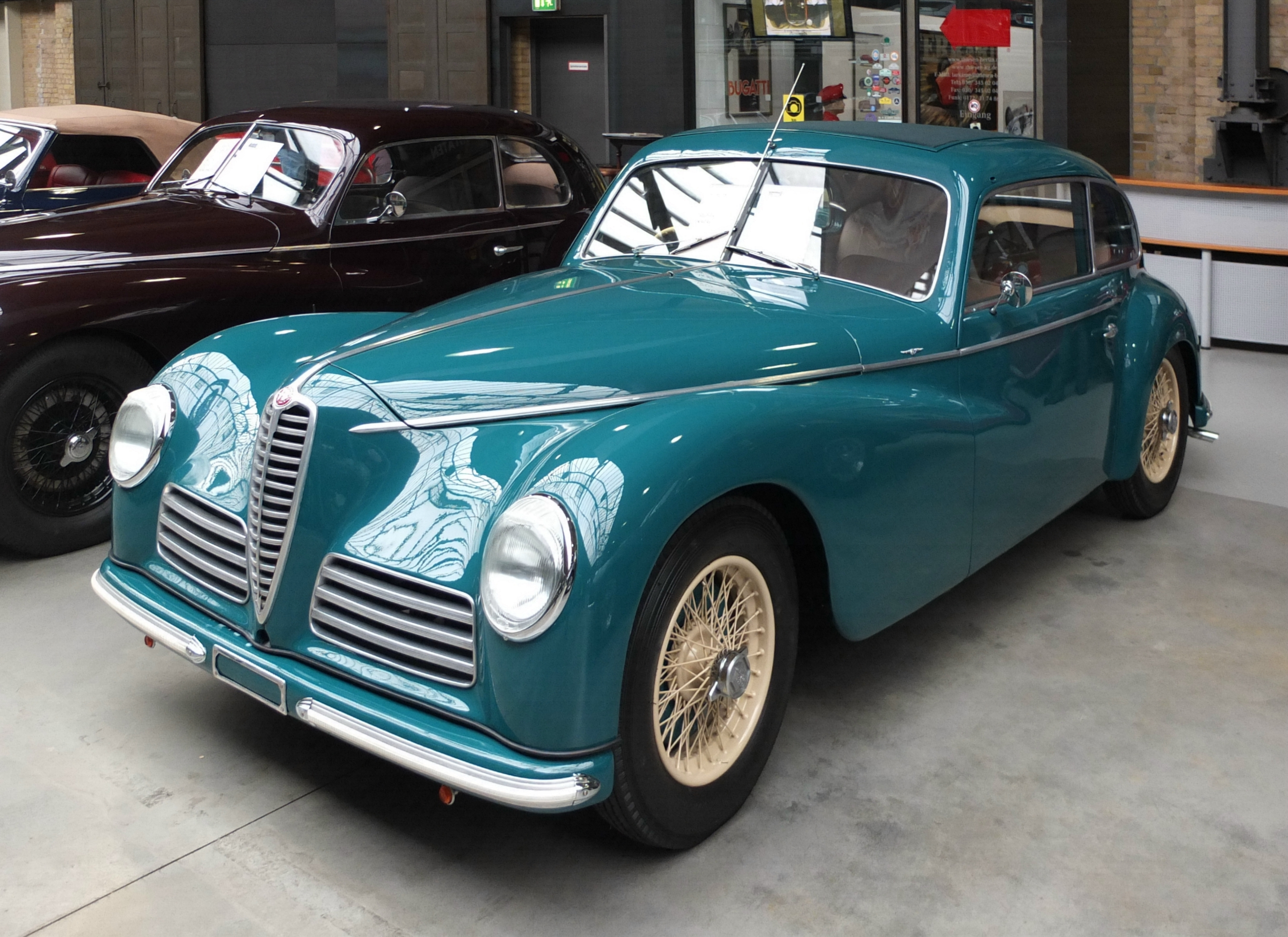 Alfa Romeo 6C 2500 Sport "Freccia d'Oro", built 1949. A very rare car, between 1949 and 1951 only 680 "Freccia d'Oro" were produced. Engine: 2500 cm3, 6 cyl., 90 hp. Seen at Classic Remise Berlin.